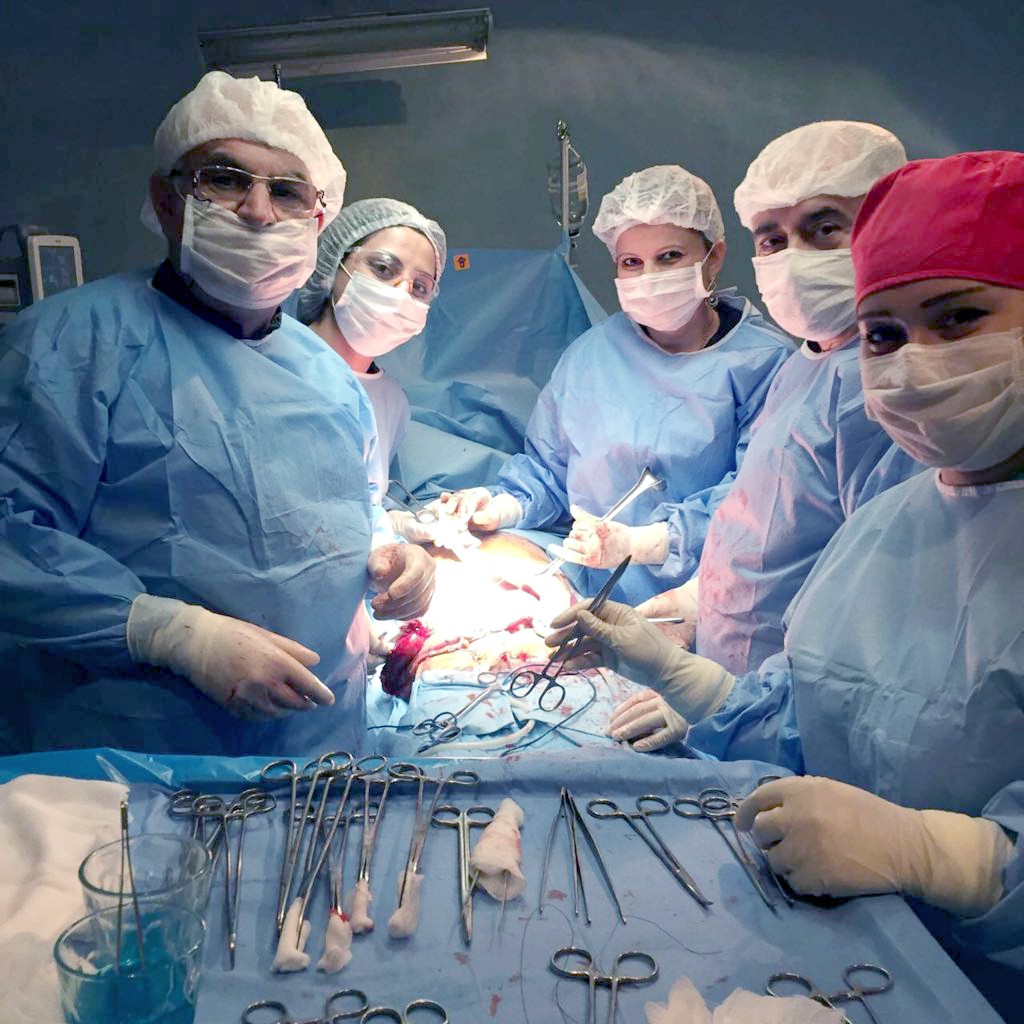 Emeliyyat